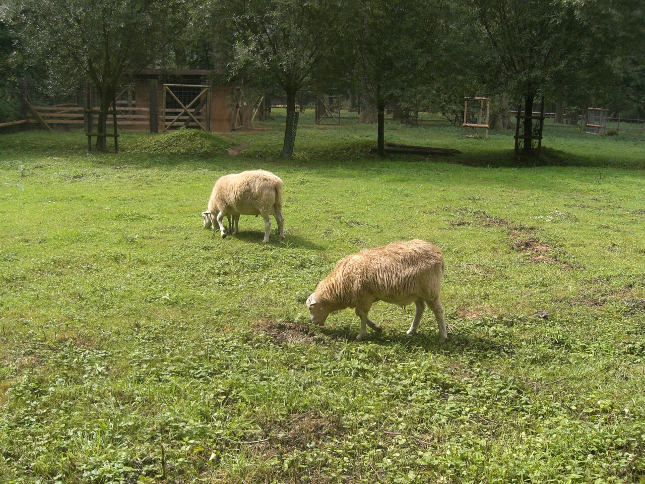 White Polled Heath or Moorschnucke rare sheep breed in the Wildfreigehege Bend enclosure at Grevenbroich, Germany